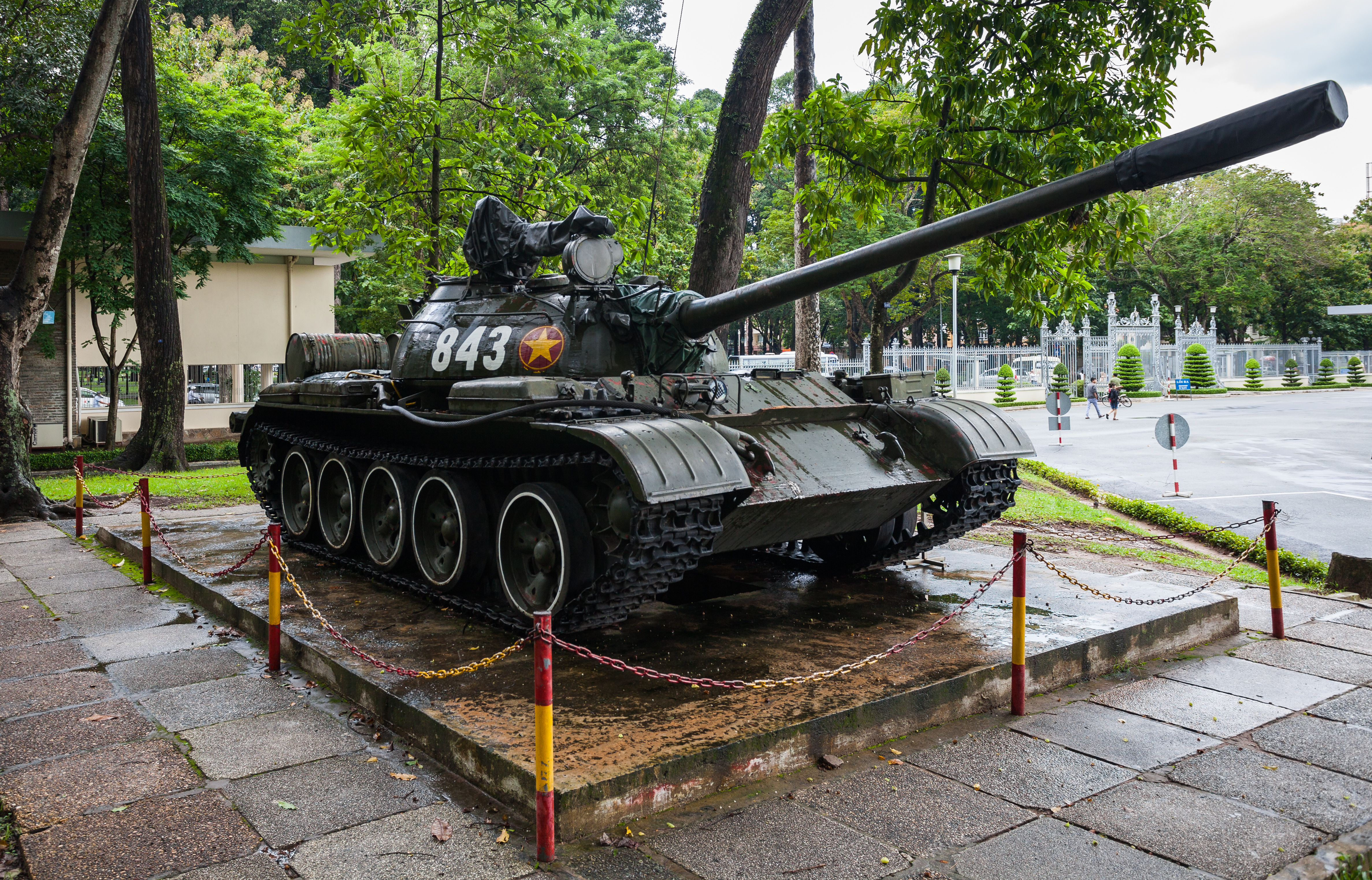 Vietnamese T-54A tank, Reunification Palace, Ho Chi Minh City, Vietnam